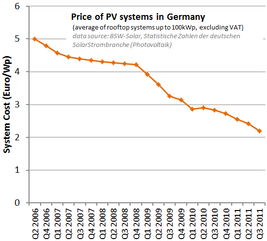 Price of PV systems in Germany (average of rooftop systems up to 100kWp, excluding VAT) data soruce: BSW-Solar, Statistische Zahlen der deutschen Solarstrombranche (Photovoltaik)